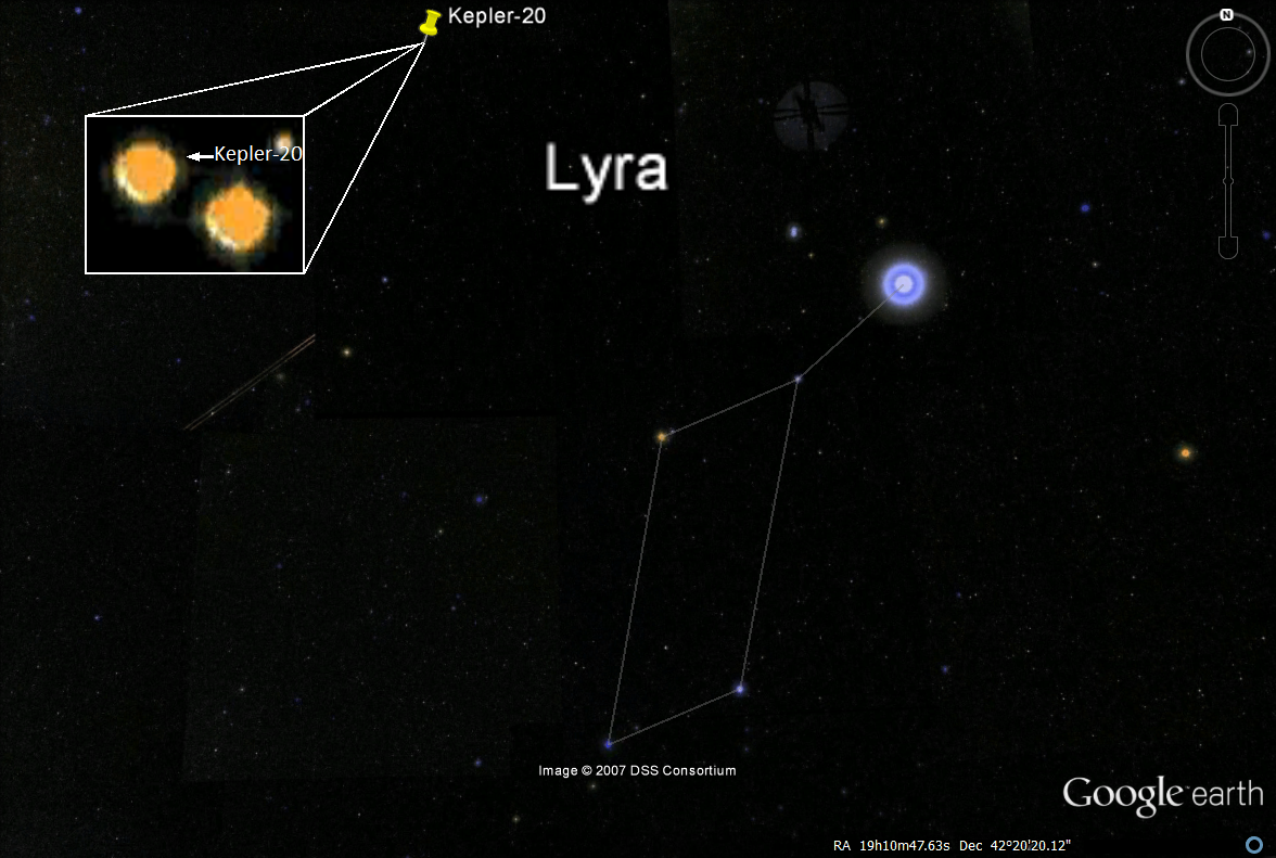 Location of the Kepler-20 star